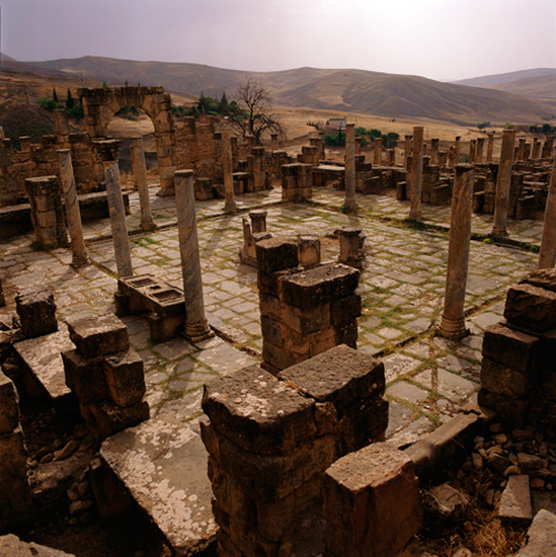 Situated 900 m above sea-level, Djémila, or Cuicul, with its forum, temples, basilicas, triumphal arches and houses, is an interesting example of Roman town planning adapted to a mountain location.